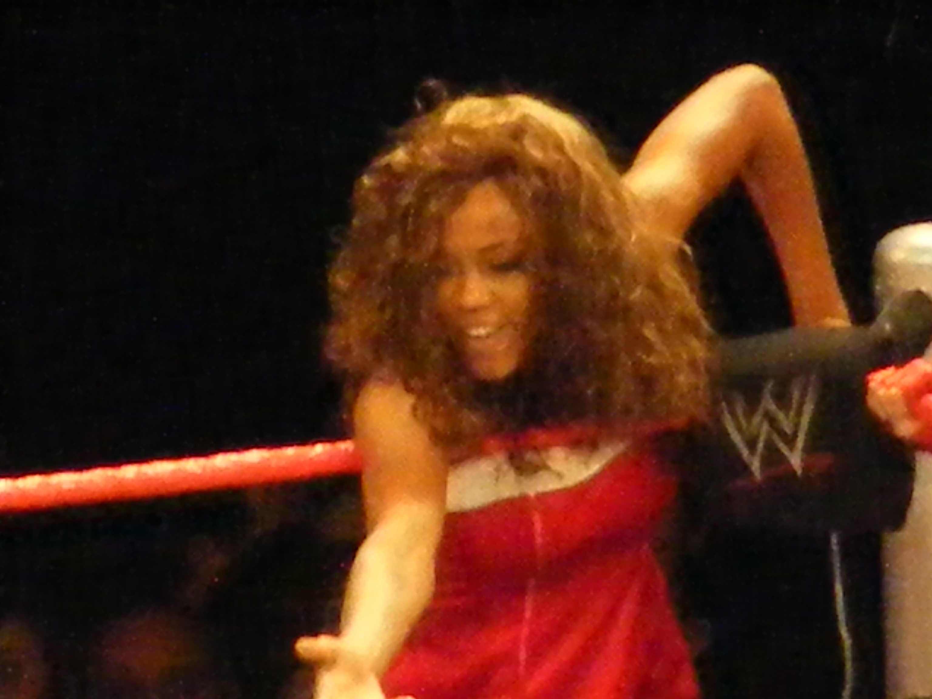 Professional wrestler Alicia Fox (real name Victoria Crawford) in a Santa's Little Helper match at a WWE show in Syracuse on December 30, 2009.